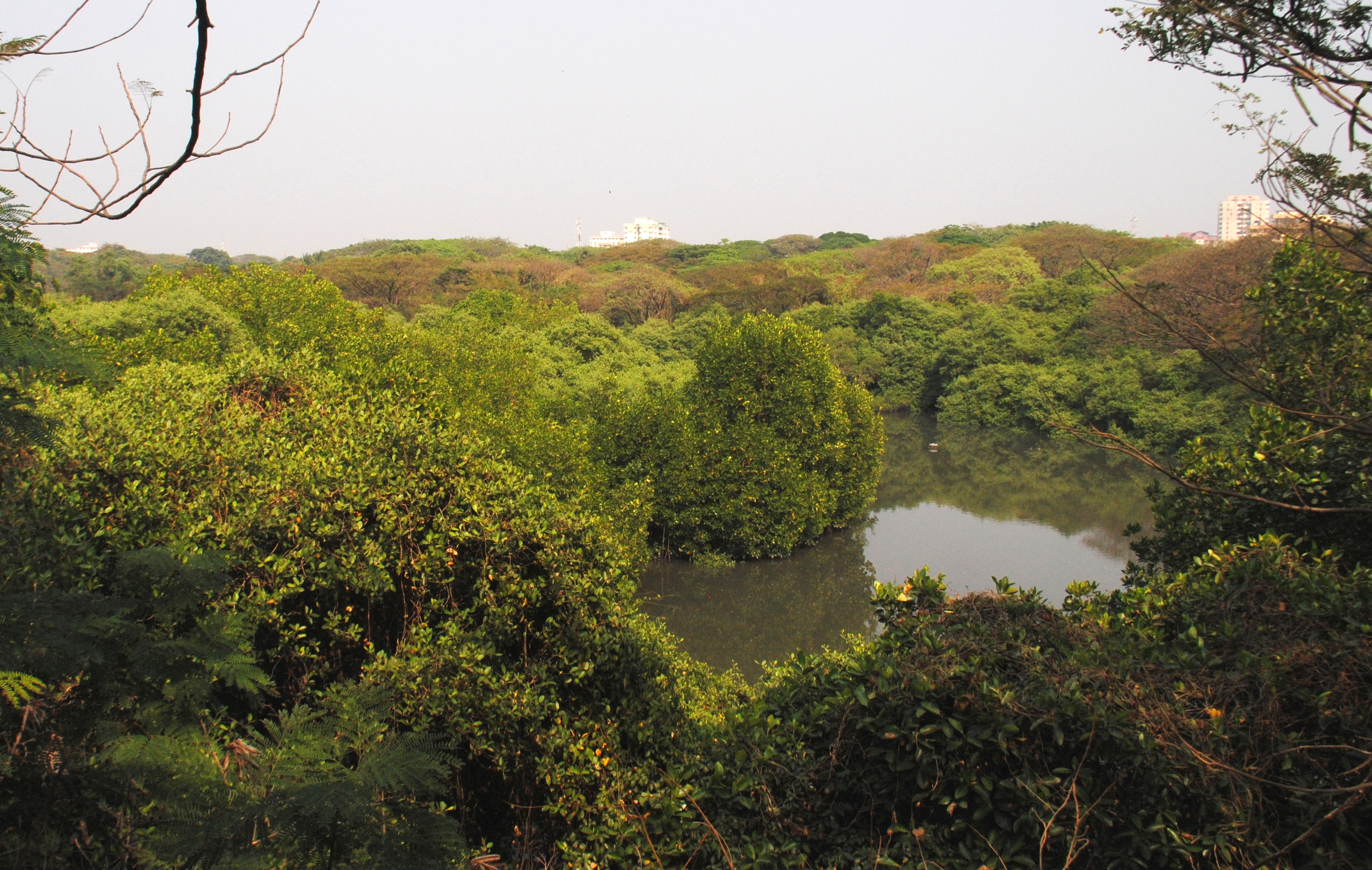 Mangalavanam a rare view